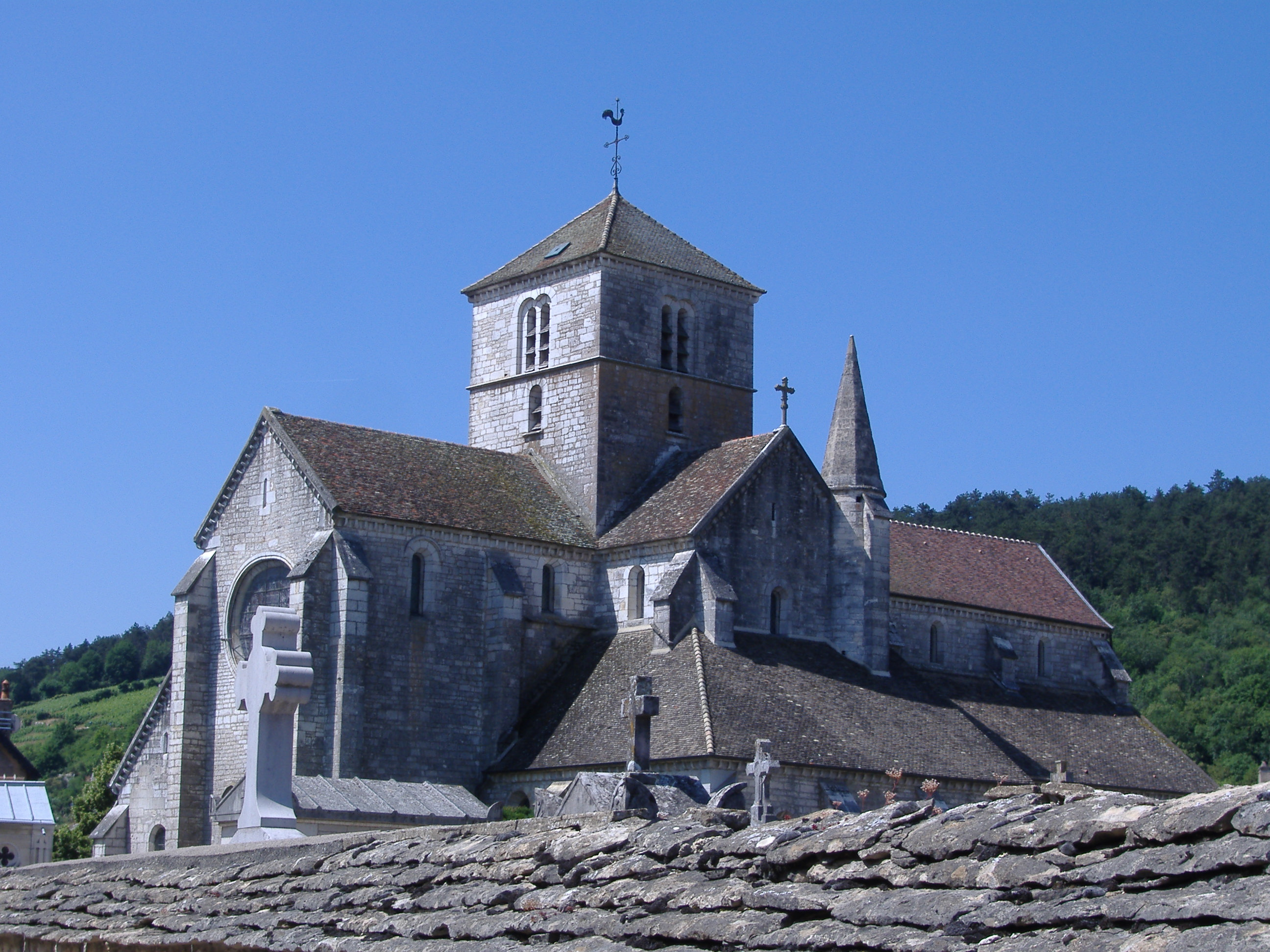 Nuits-Saint-Georges Eglise Saint Symphorien